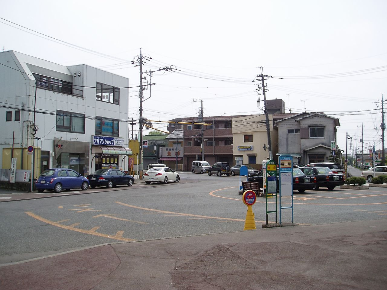 Front of Kayama Sta.